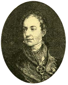 engraving of Klemens Wenzel von Metternich